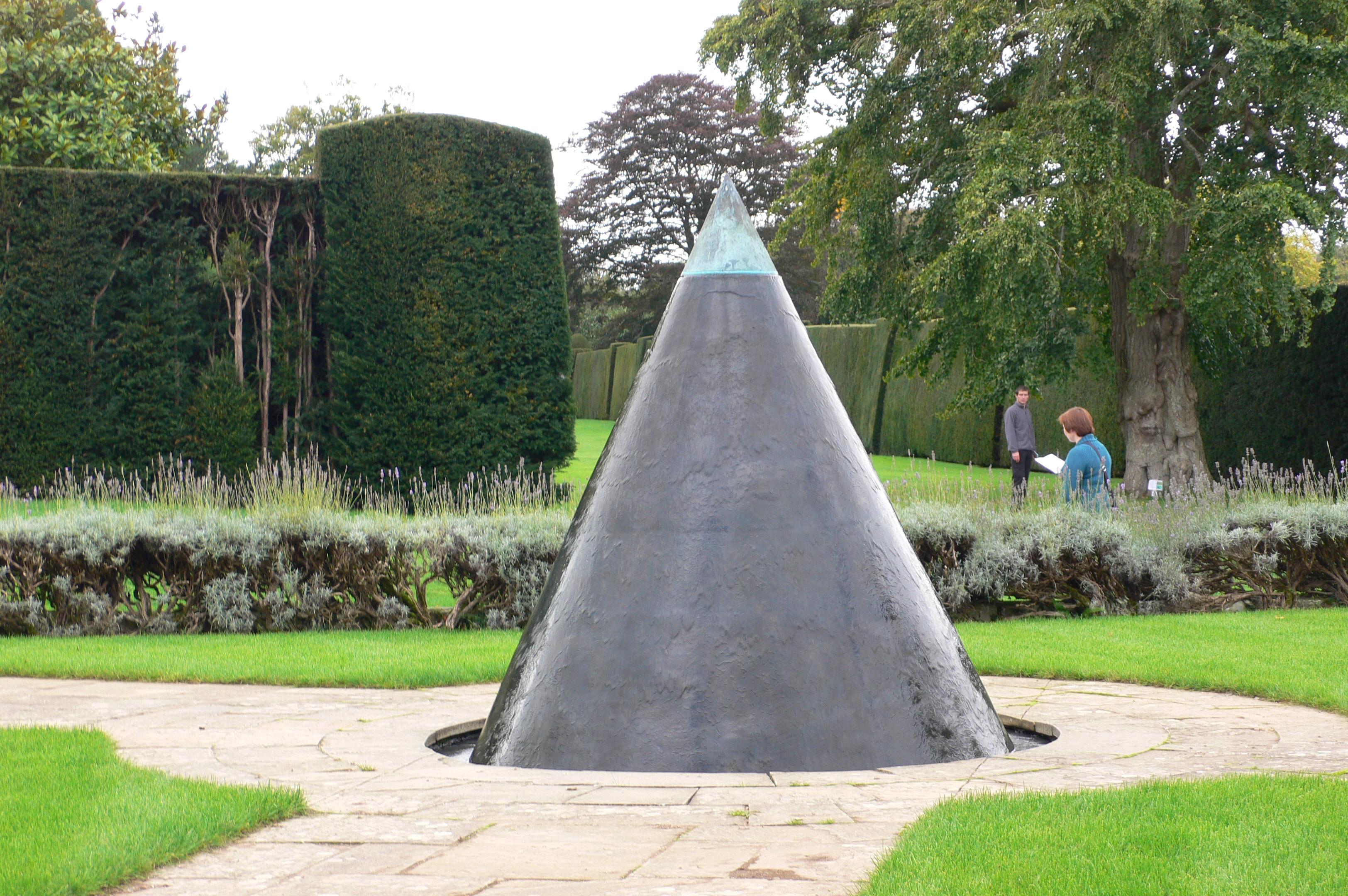 Cone by William Pye, Antony House Gardens, Cornwall